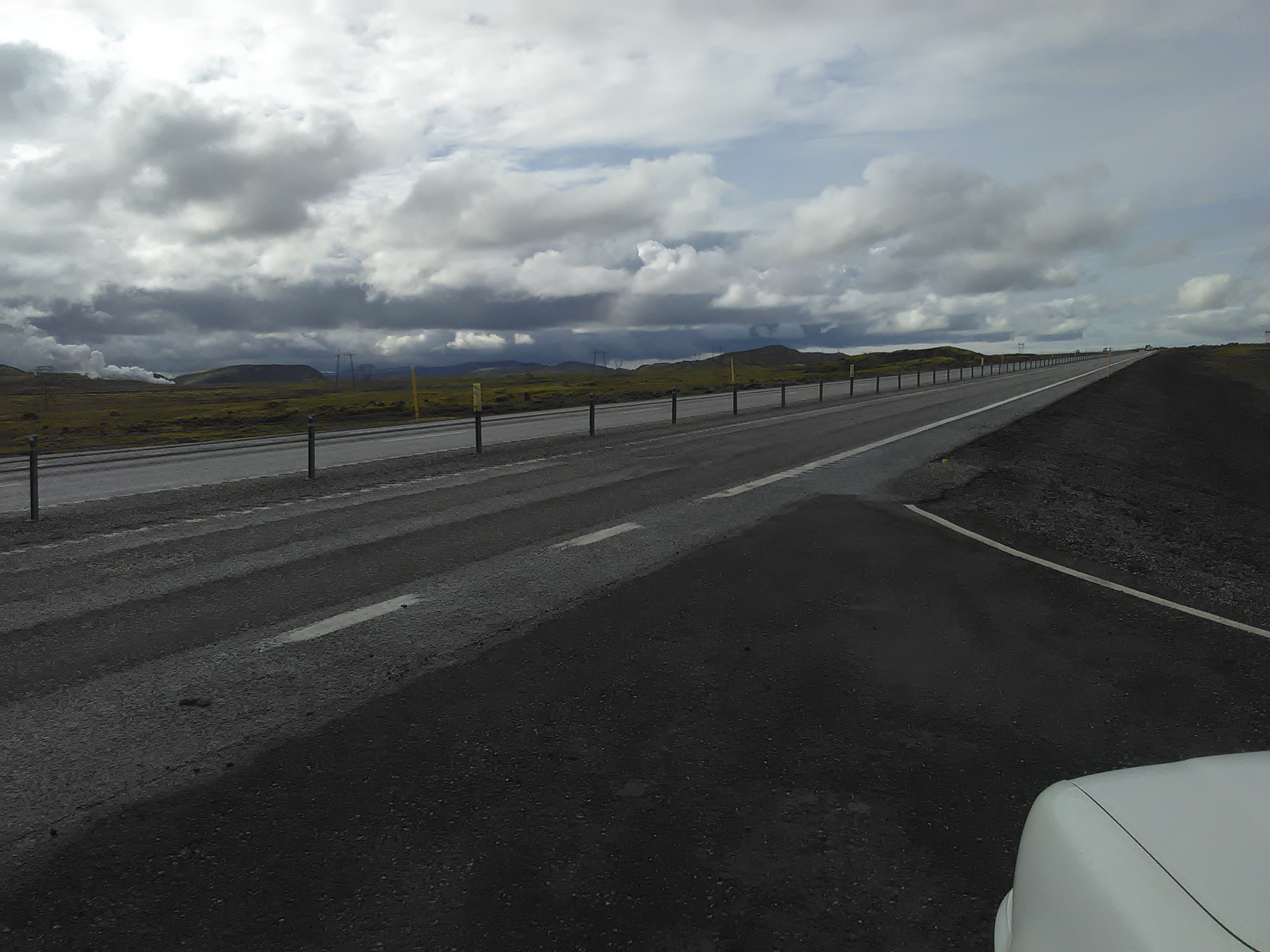 Hellisheidi, South-west Iceland